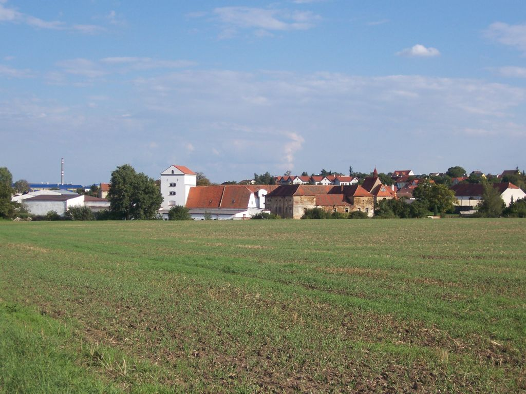 Pakoměřice, part of Bořanovice village